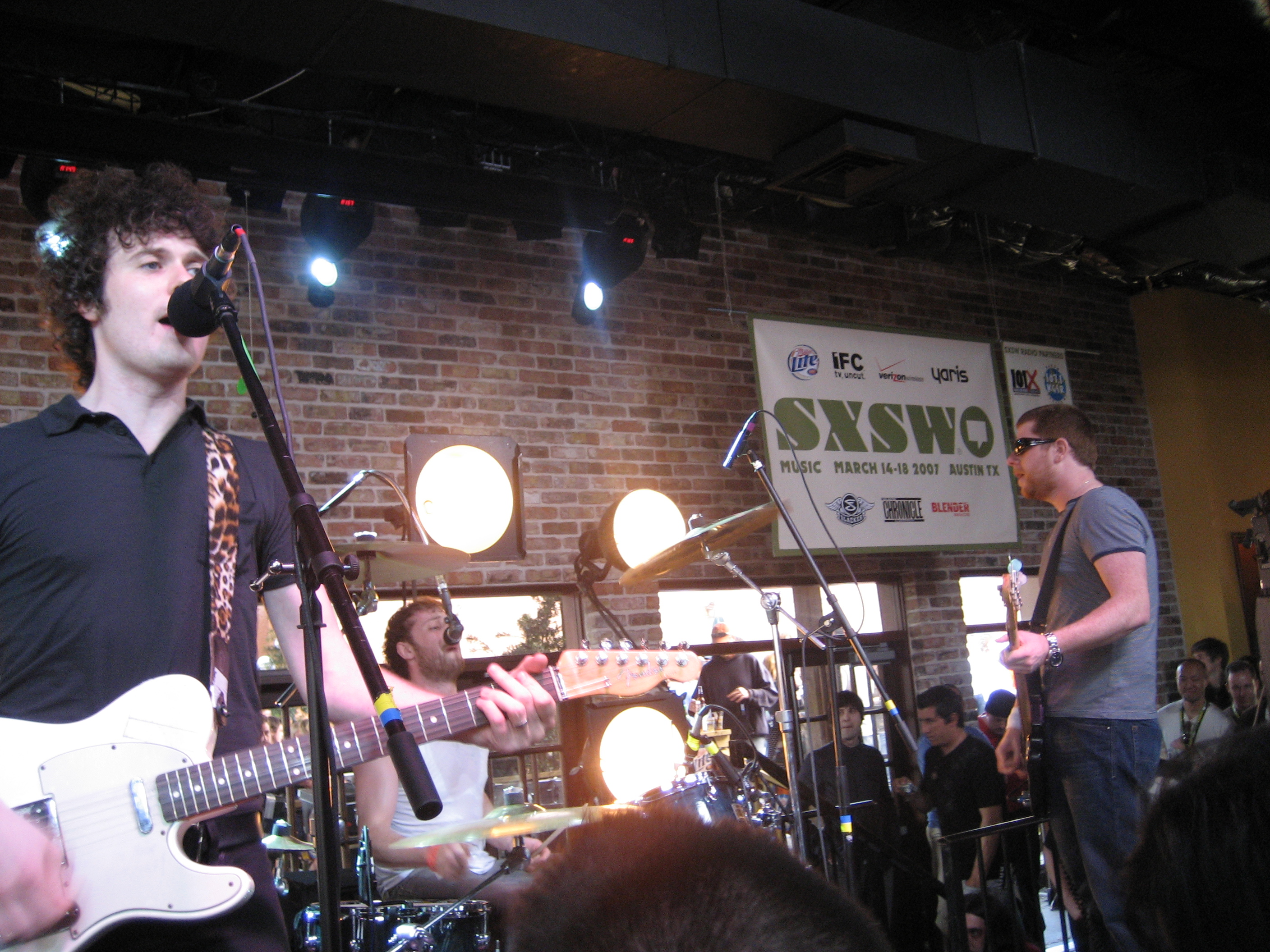 Scottish alternative rock band The Fratellis.